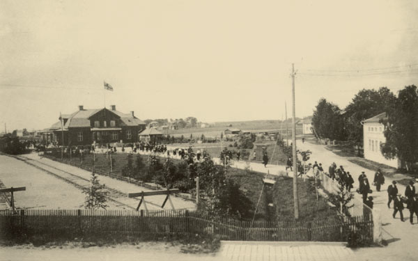 Railway station in Piteå 1919.